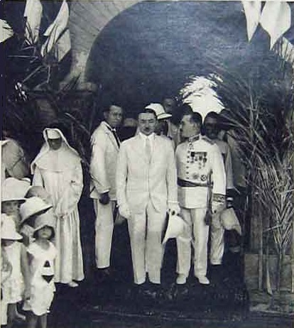 Photo showing the French Minister of Colonies Paul Reynaud (center) during a visit to a hospital in Djibouti in September 1931. Governor Chapon-Baissac is on his left. Raynaud was making a short stopover in Djibouti on his way to the Far East. Published in L'Illustration (September 1931).